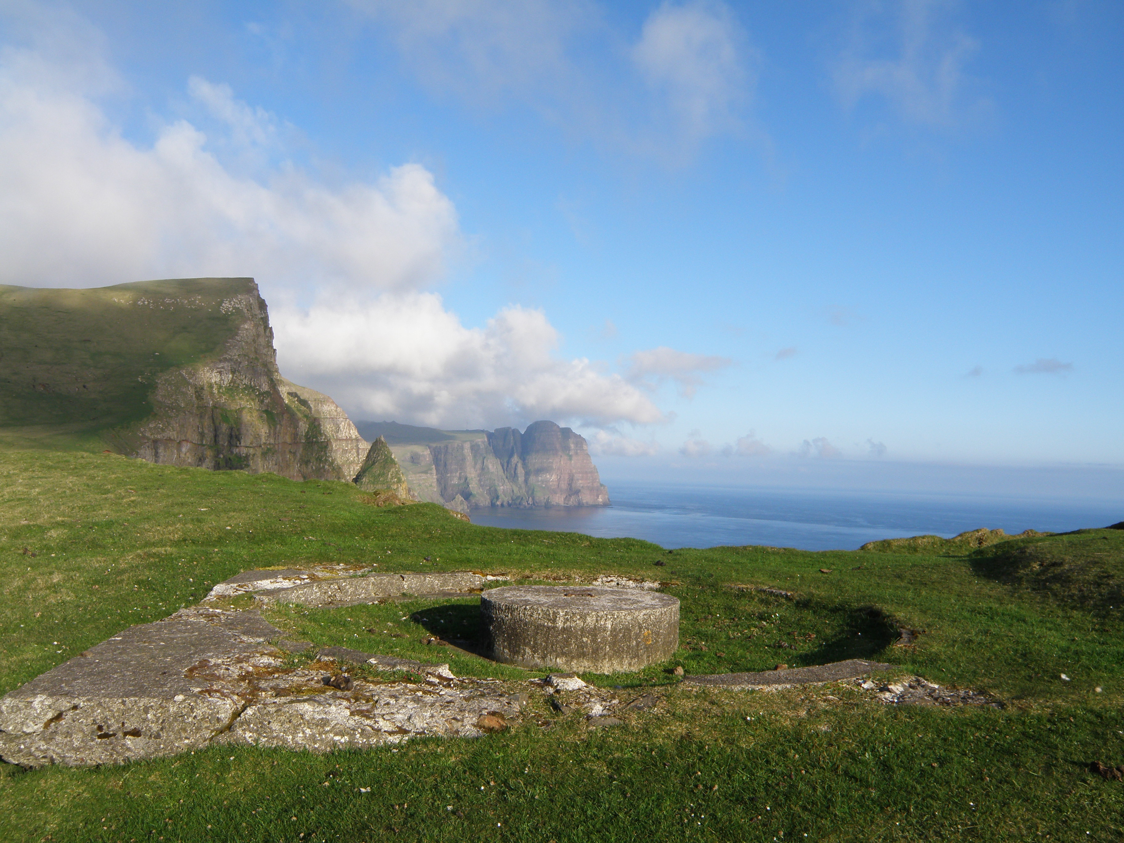 This is the remain of a former concrete gun pit, made by the British Army during World War II. The Faroe Islands were occupied by Great Britain, while Denmark (which the Faroe Islands belong to) was occupied by Germany. This place is called Eggjarnar or Skúvanes, around 200 meters above sea level; it is located on the west coast of the island Suðuroy, which is the southernmost of the 18 islands of the Faroes. Nearby are two concrete pillboxes from World War II. In the background are the cliffs of Suðuroy, furthest away is Beinisvørð, which is 470 meters high, the second highest sea cliff of the Faroe Islands and amongst the 10 highest sea cliff in Europe. Føroyskt: Her sæst betong fundamentið har ein bretsk kanón hevur staðið undir Seinna Heimsbardaga. Aftanfyri síggjast Suðuroyar bjørgini, longst burturi sæst Beinisvørð, sum er 470 metrar høgt.